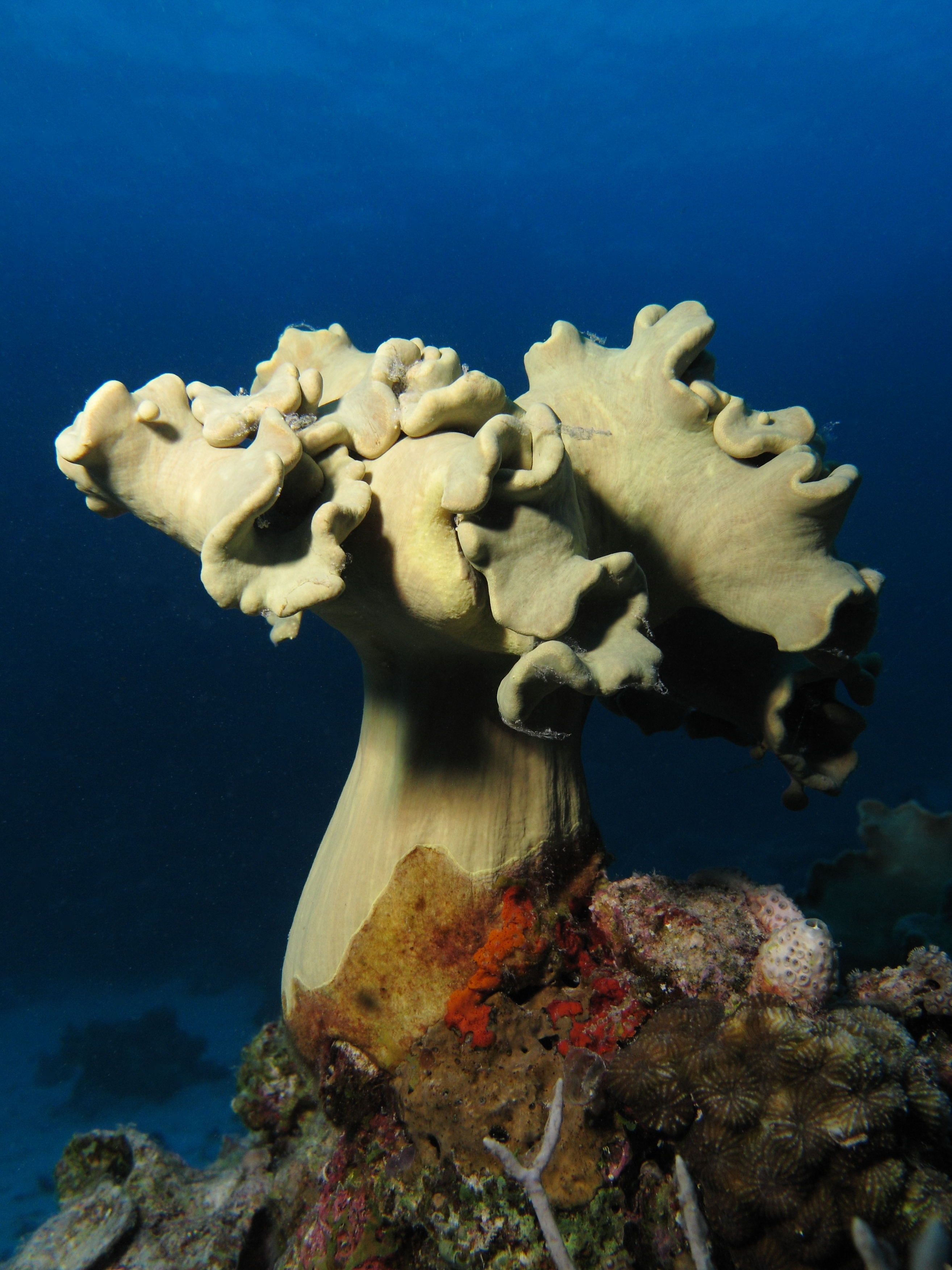 Sarcophyton glaucum soft coral at Shaab Angosh reef (Red Sea, Egypt). Note: tentacles withdrawn.